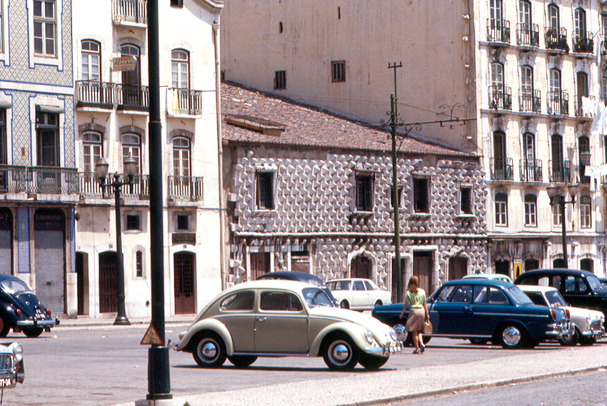 The "House of Spikes," built in the 16th century.